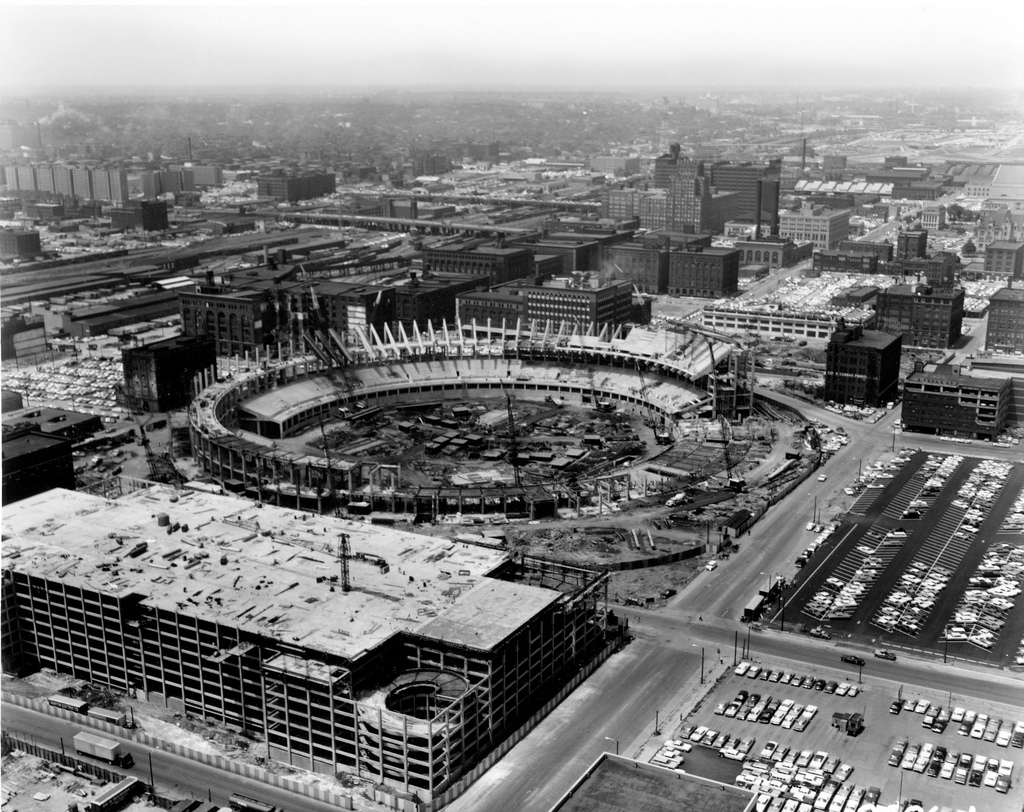 Collection Name: Missouri Department of Transportation Collection Photographer/Studio: MoDOT Description: Construction of Busch Stadium in St. Louis. Coverage: United States - Missouri - St. Louis - St. Louis City Date: July 8, 1965 Rights: Copyright is in the public domain. Credit: Courtesy of Missouri State Archives Image Number: MoDOT_2206-1 Institution: Missouri State Archives